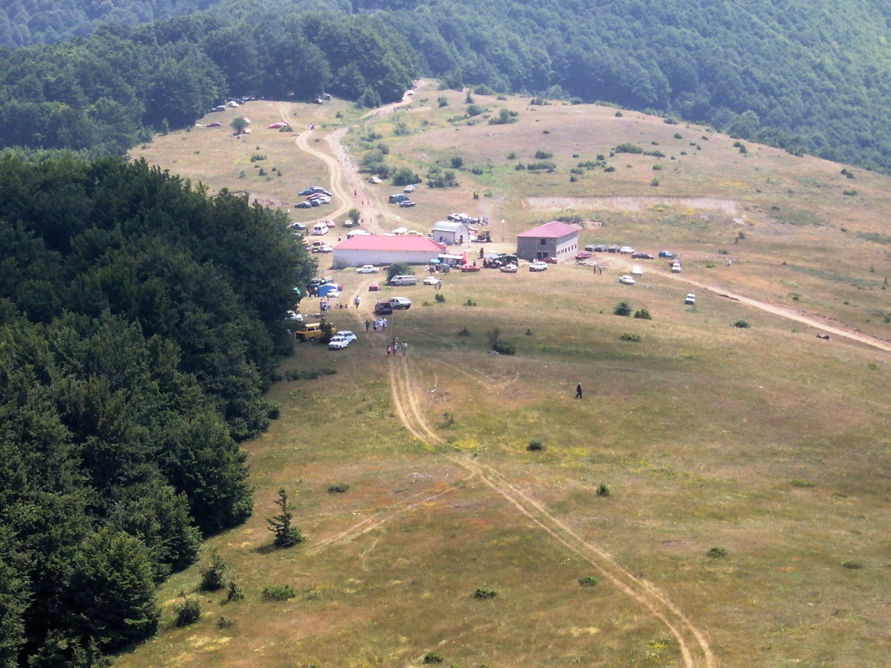 Ilinska_crkva.JPG